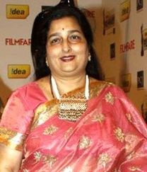 Anuradha Paudwal 57th Idea Filmfare Awards 2011